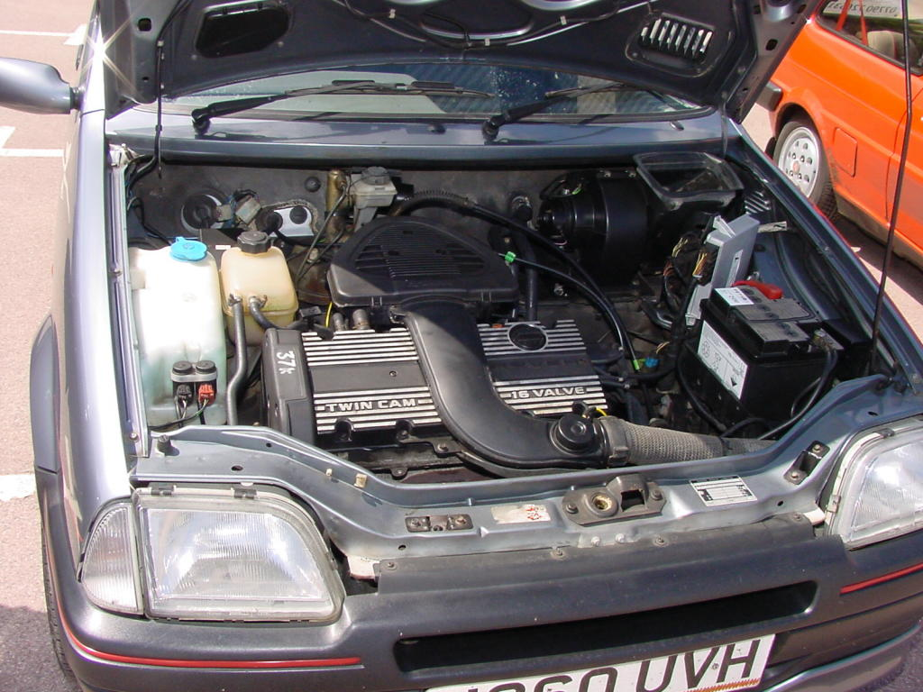 August 1990 grey Rover Metro 1.4 GTi engine bay with 1.4 16v single point injection K-series engine. Metro 30th Anniversary at Heritage Motor Centre, Gaydon, UK